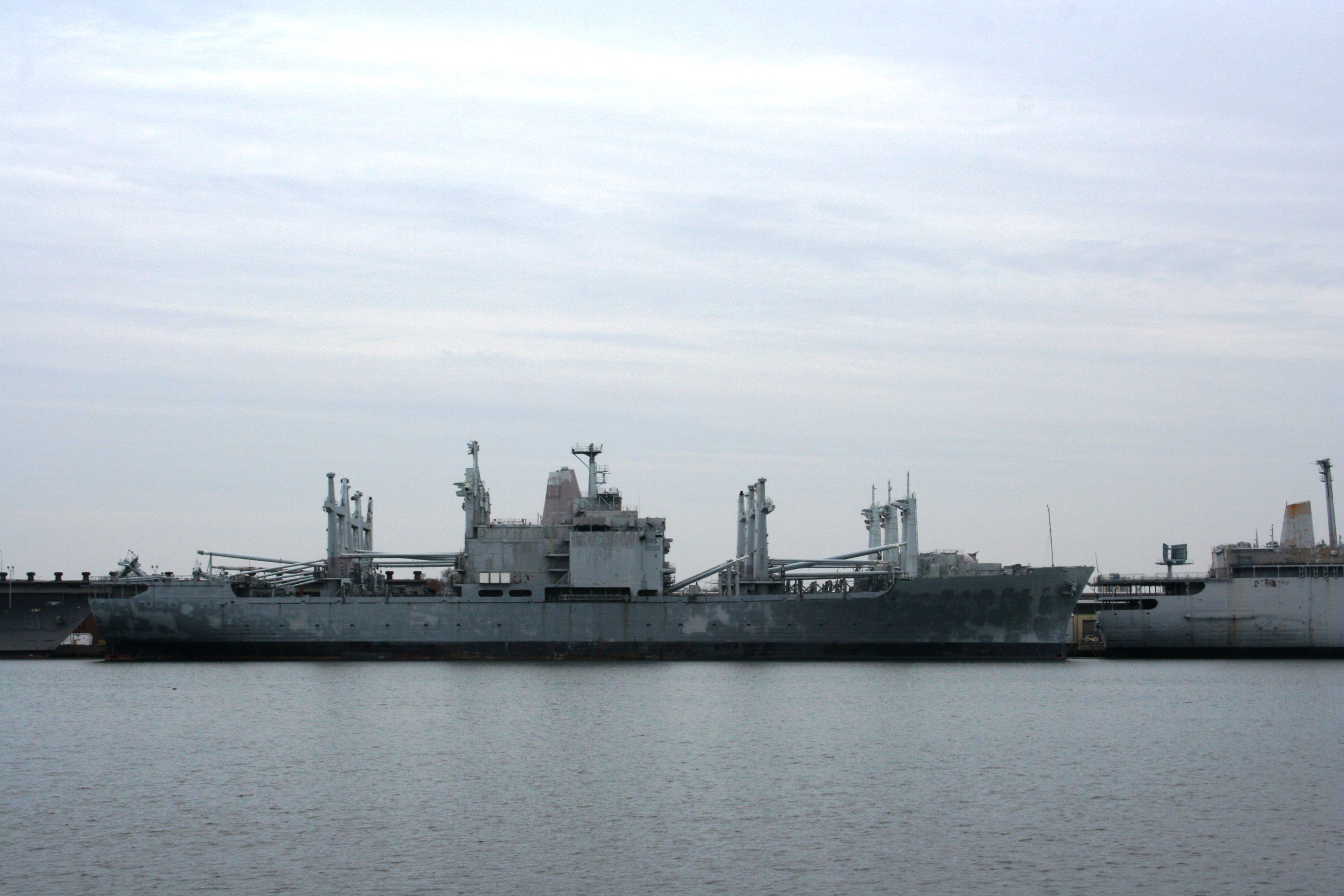 Three mothballed U.S. Navy Charleston class amphibious cargo ships at Philadelphia Naval Shipyard, USS Mobile (LKA-115) is visible in the center.